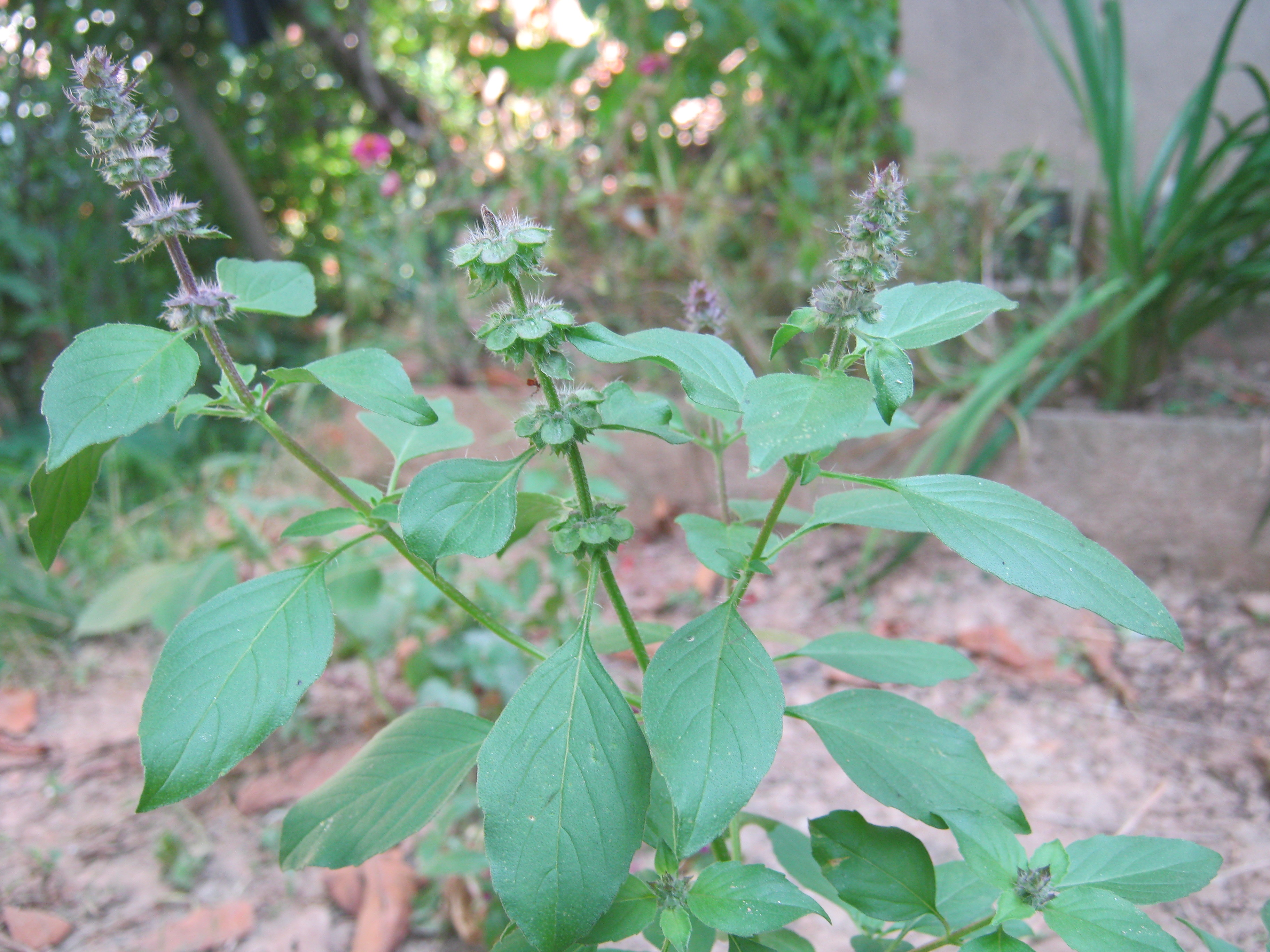 Ocimum basilicum found in Nepal.